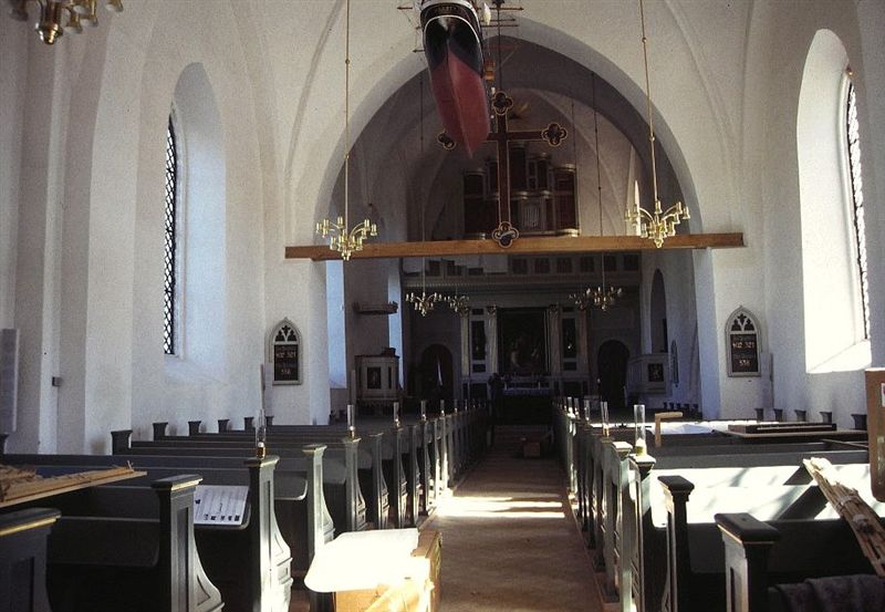 Brahetrolleborg Church in Faaborg-Midtfyn Kommune from apr. 1200